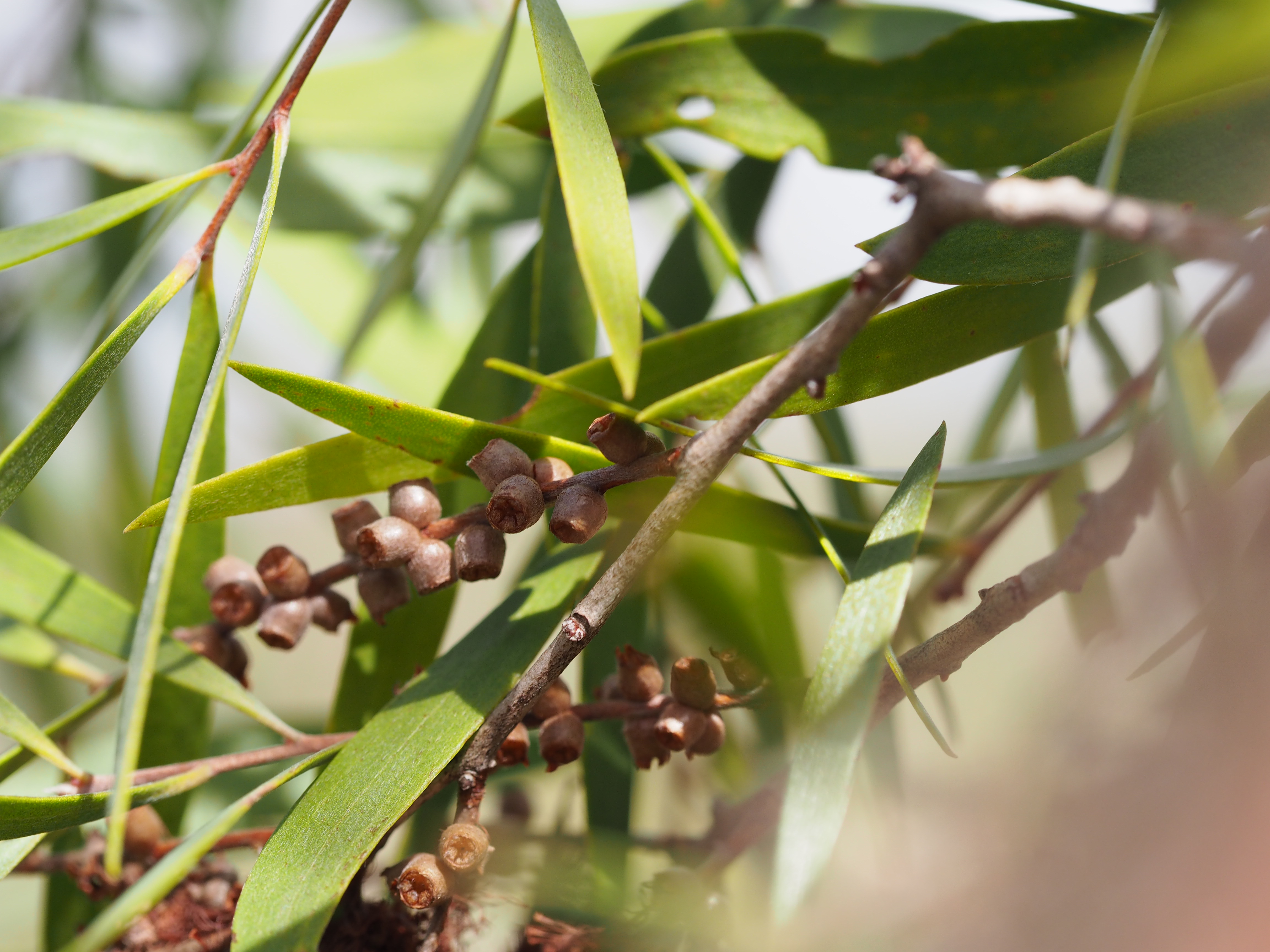 Melaleuca stenostachya foliage and frut.